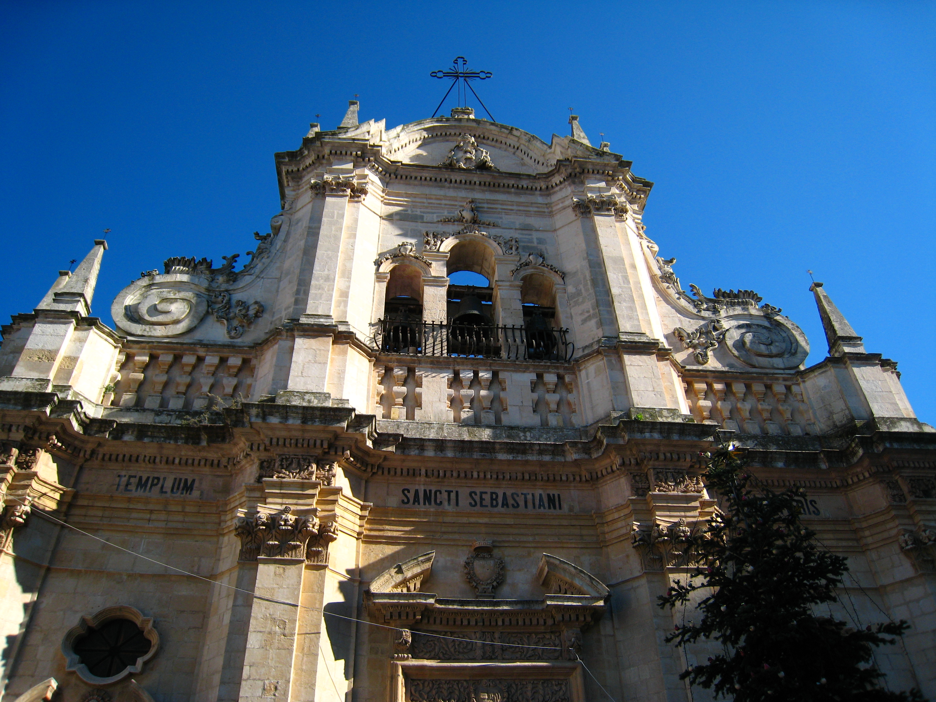 Melilli cathedral